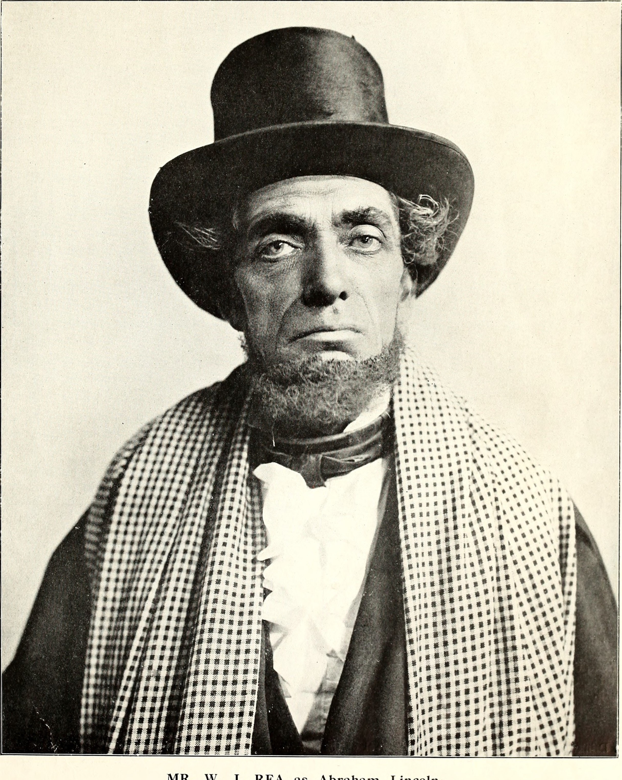 Title: Abraham Lincoln Year: 1921 (1920s) Authors: Drinkwater, John, 1882-1937 Findon, B. W. (Benjamin William), 1859-1943 Subjects: Lincoln, Abraham, 1809-1865 Presidents Publisher: (London) : (Stage Pictorial Publishing Co.) Text Appearing Before Image: ' Text Appearing After Image: MR W. J. REA as Abraham Lincoln. 43 C-A^